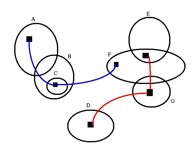 An Euler Diagram, with added Spiders, representing Logical Disjunctions.